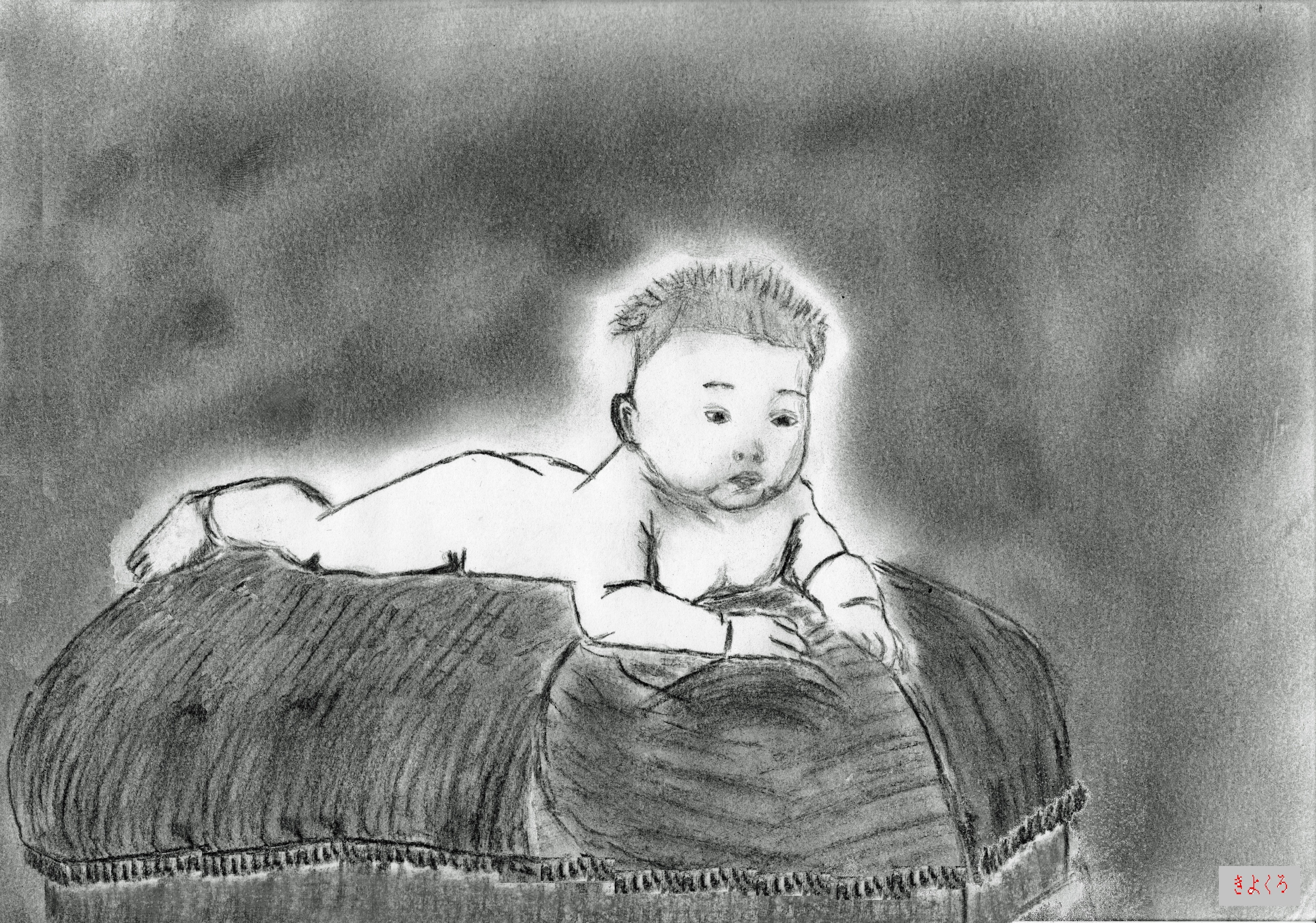 Undicesima illustrazione